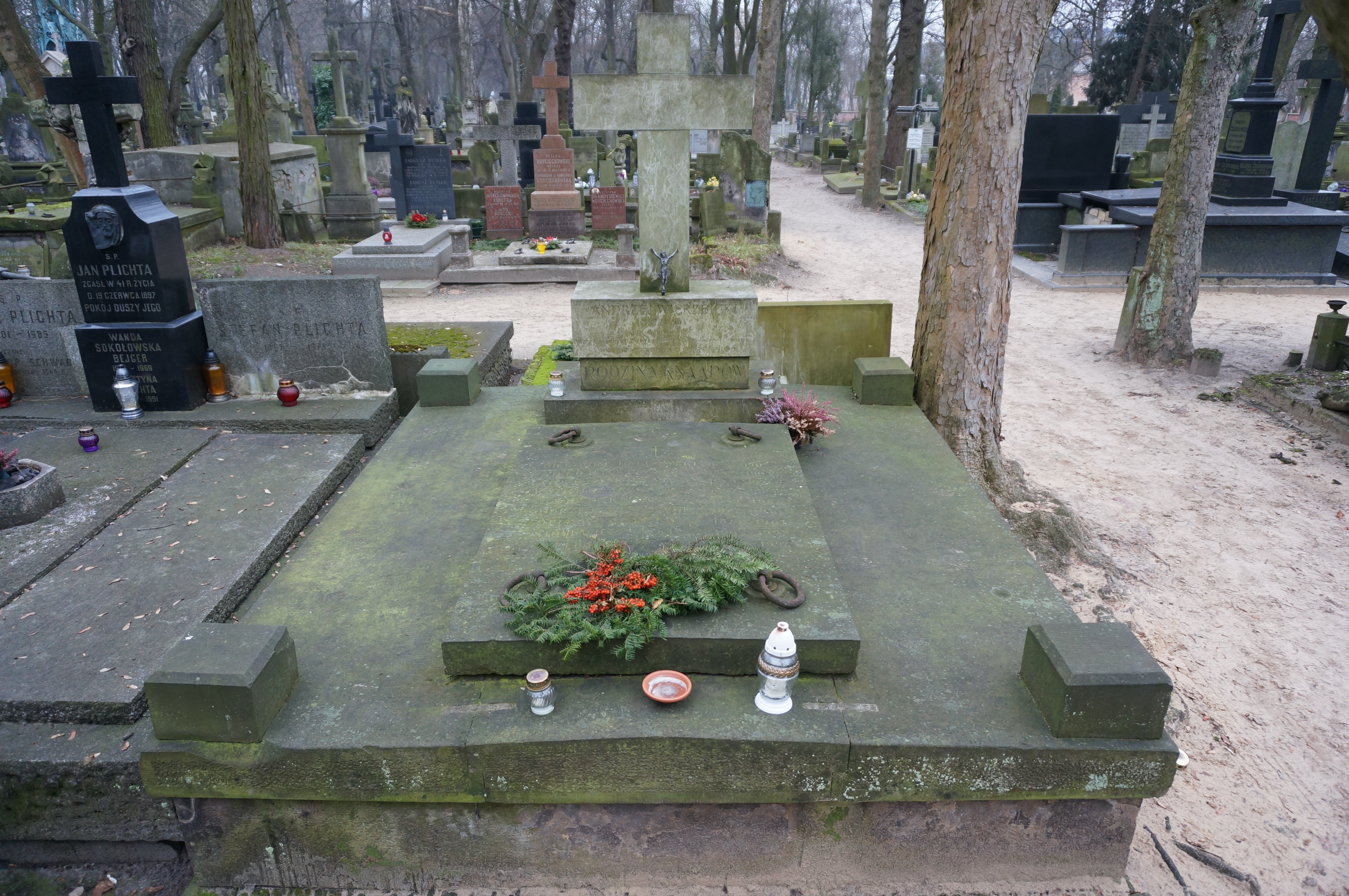 The grave of Andrzej Wierzbicki at the Powązki Cemetery (section C, row 2, grave 30, 31)